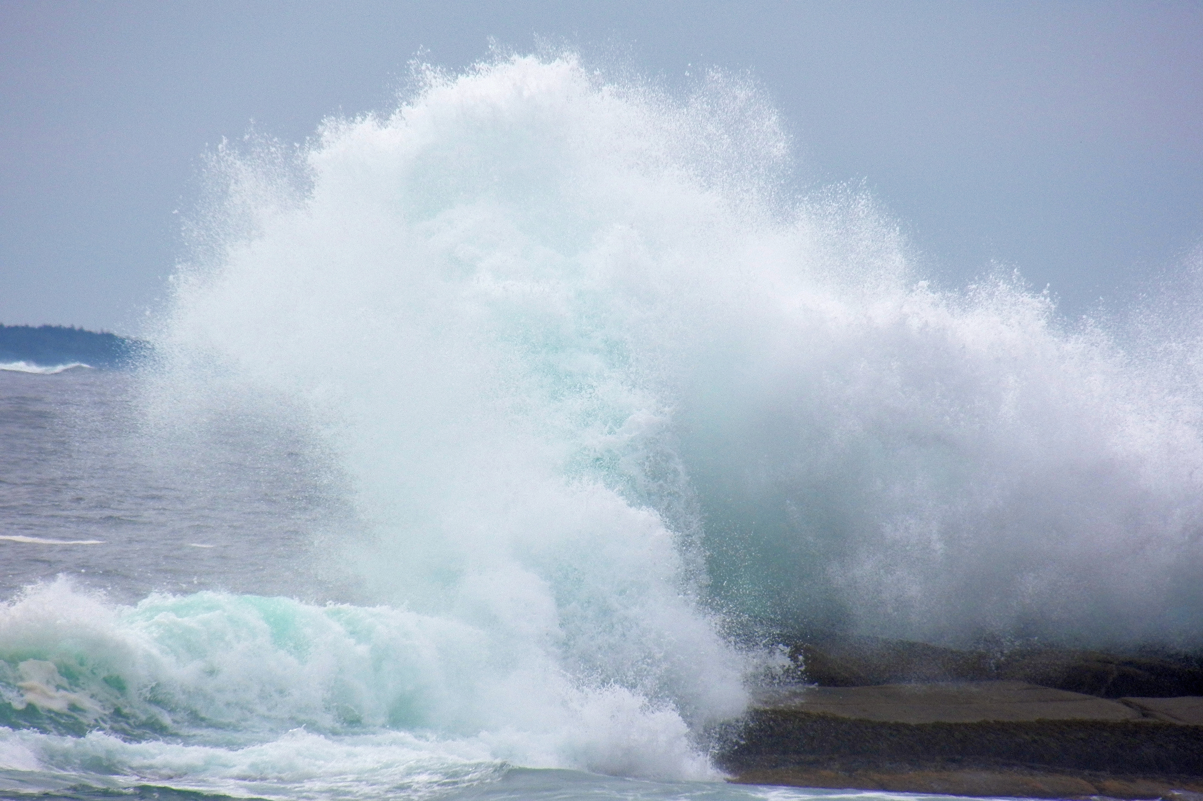 Hurricane Katia put on a show here yesterday. (This shot is a rare auto-enhanced manipulation exaggerating the original colours.) Strong swells from Hurricane Katia in Nove Scotia, September 2011.